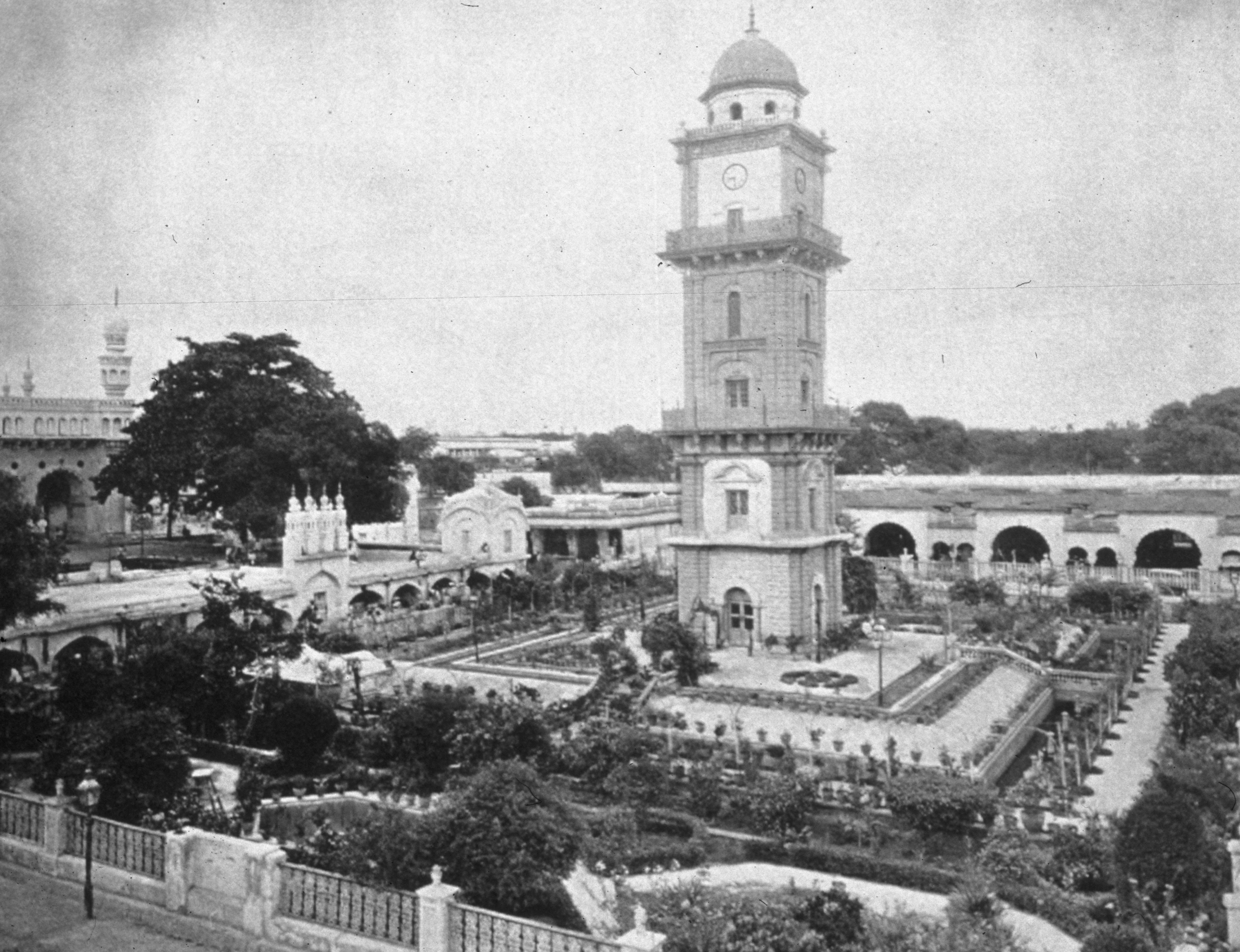 Mahbub Chowk Clock Tower as seen in 1892. Built in 1890-92 by Asman Jah